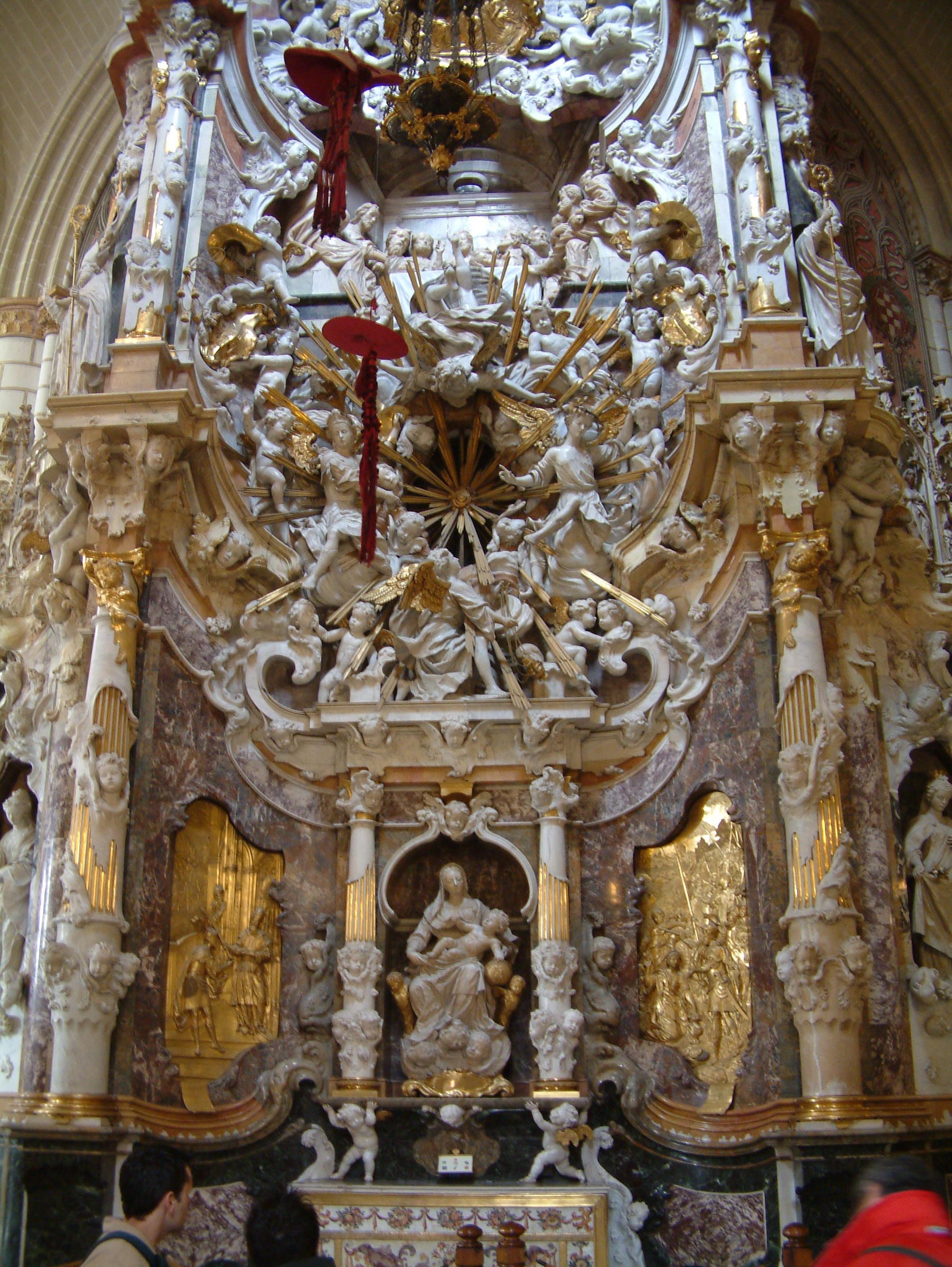 El Transparente is a Baroque altarpiece in the ambulatory of the Cathedral of Toledo, Spain. Two galeri, with tassels, are hanging in front.